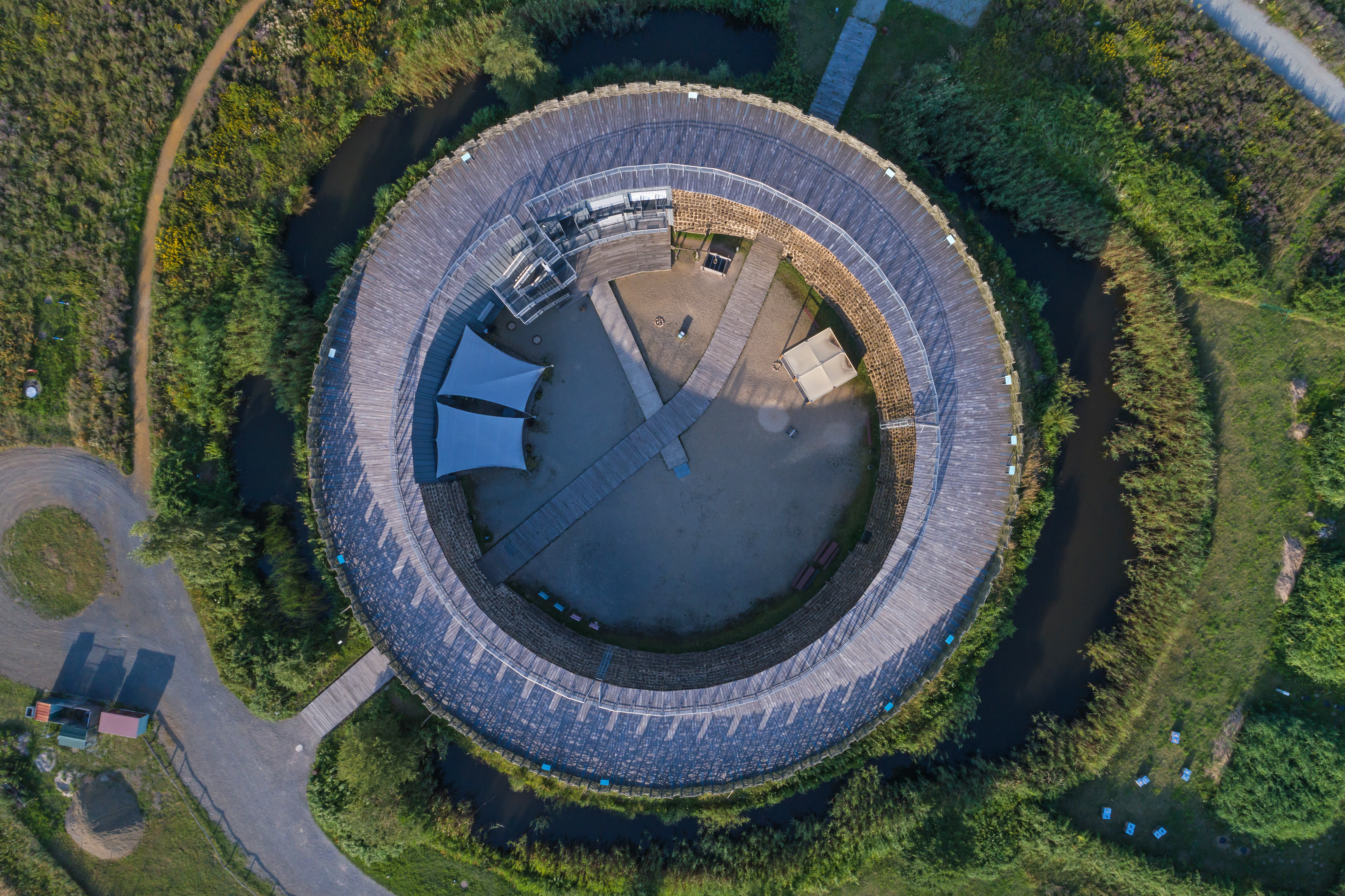 Aerial photo of Slavic Castle of Raddusch (Brandenburg, Germany)